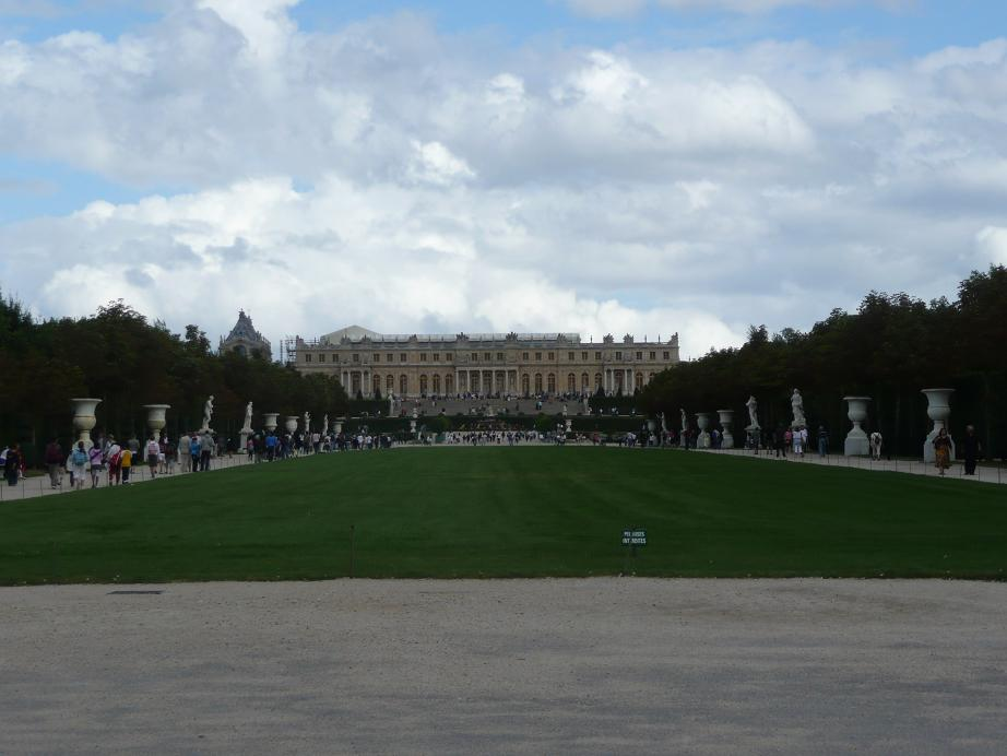 Palace of Versailles